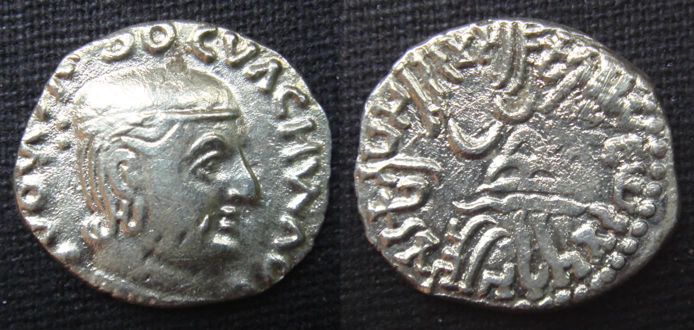 Western Satrap ruler Rudradaman I. Personal coin. Personal photograph.